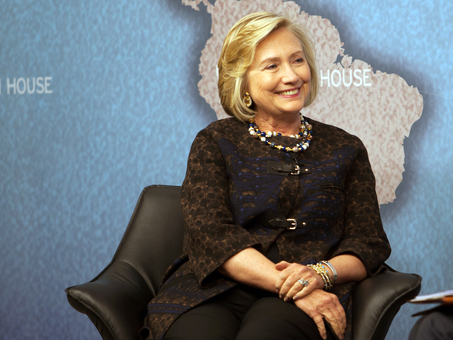 Hillary Rodham Clinton, winner of the Chatham House Prize 2013, visits Chatham House for a discussion moderated by Director Dr Robin Niblett.